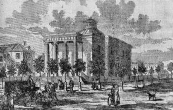 An image of Richmond, Virginia's original City Hall building, in use from 1814-1874. It was replaced by what's now known as the Old City Hall building.